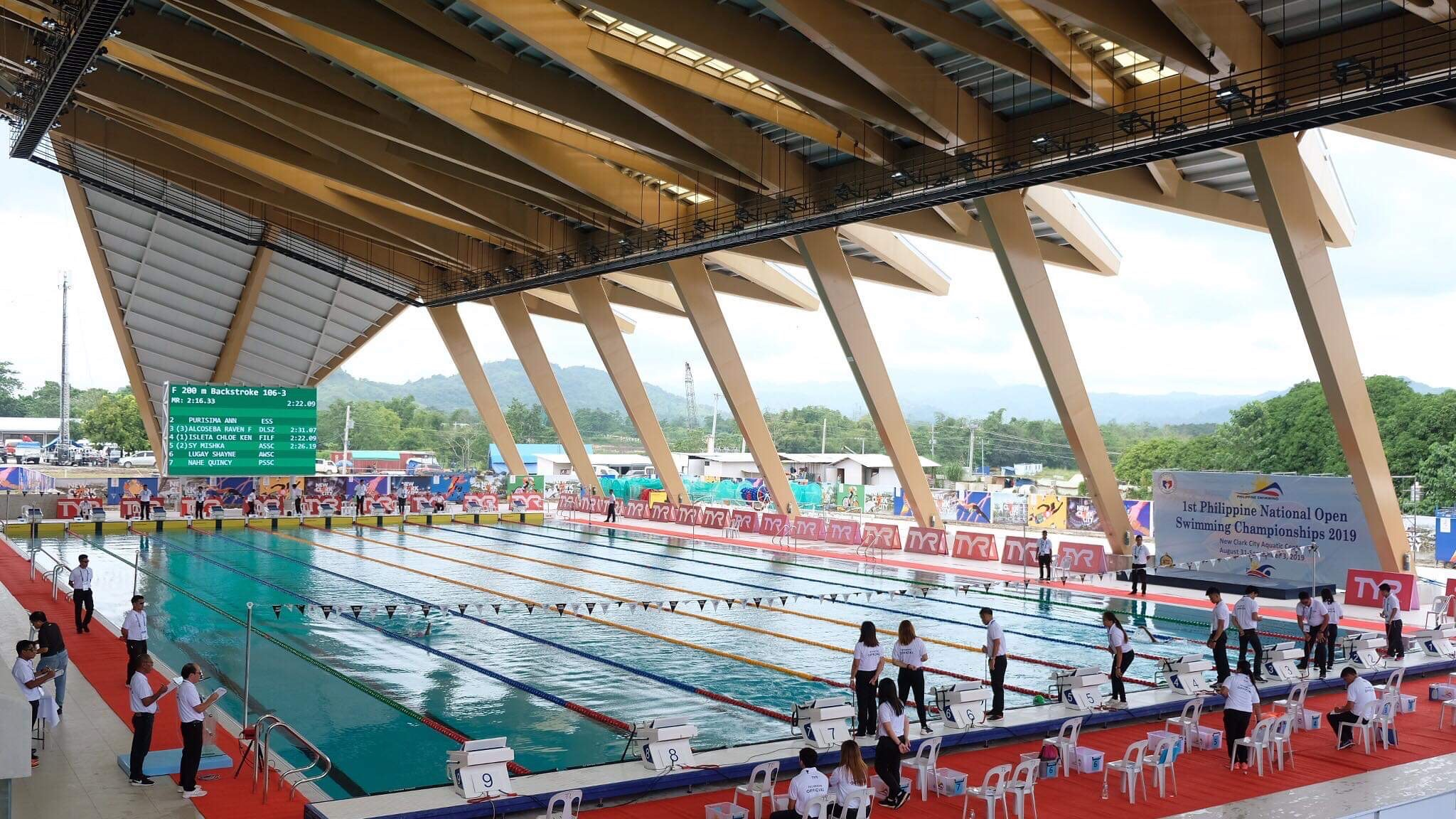 The design for the Aquatics Center shows the coastal heritage of the Filipino people, depicting Capiz shells used as windows, while the structural framing mimics the weaving patterns of the “baklad’” or woven fish nets.